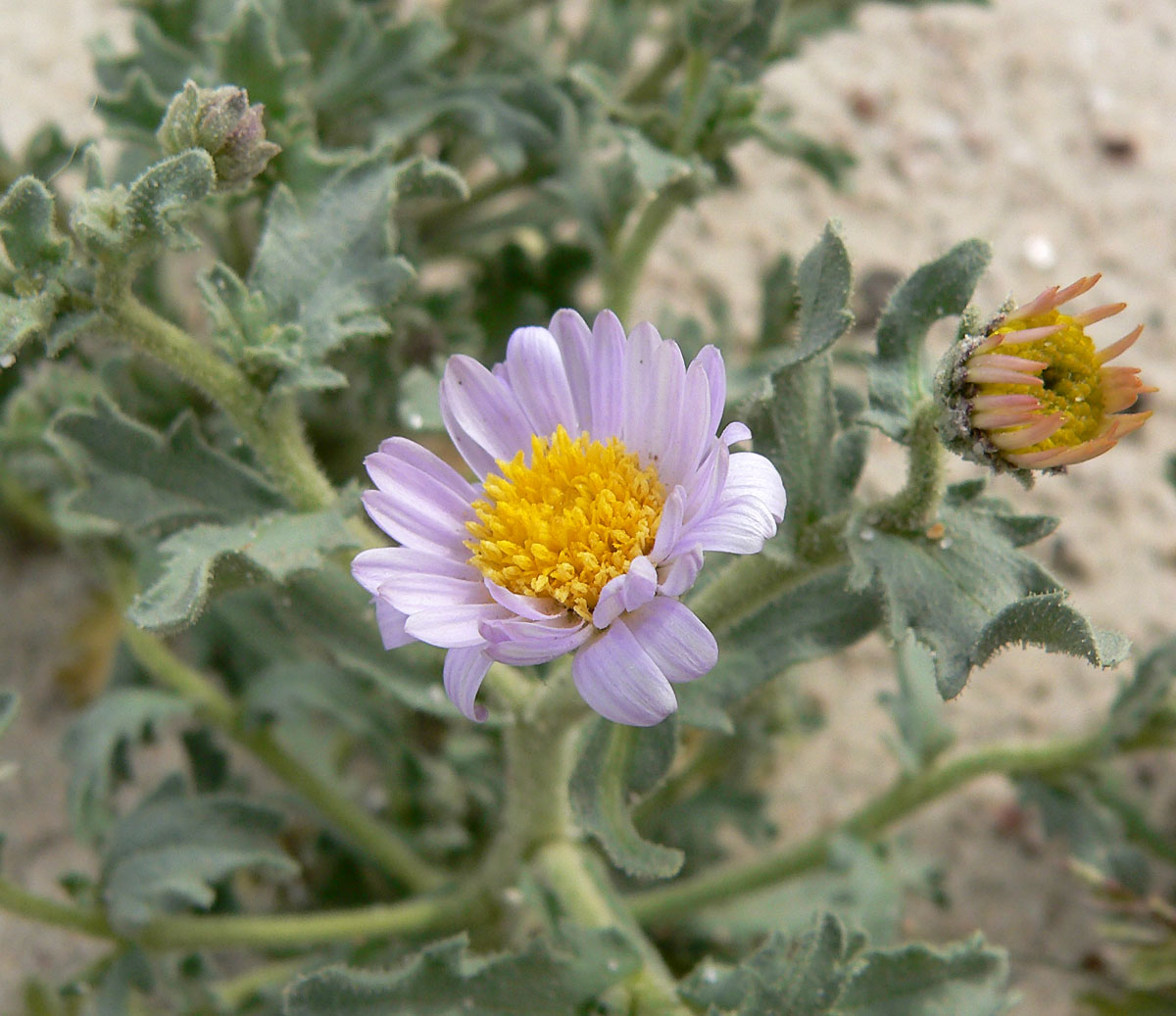 Arida arizonica at the edge of Soda Dry Lake southwest of Little Cowhole Mountain, south of Baker, California